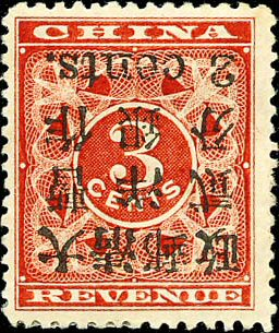 Red 17